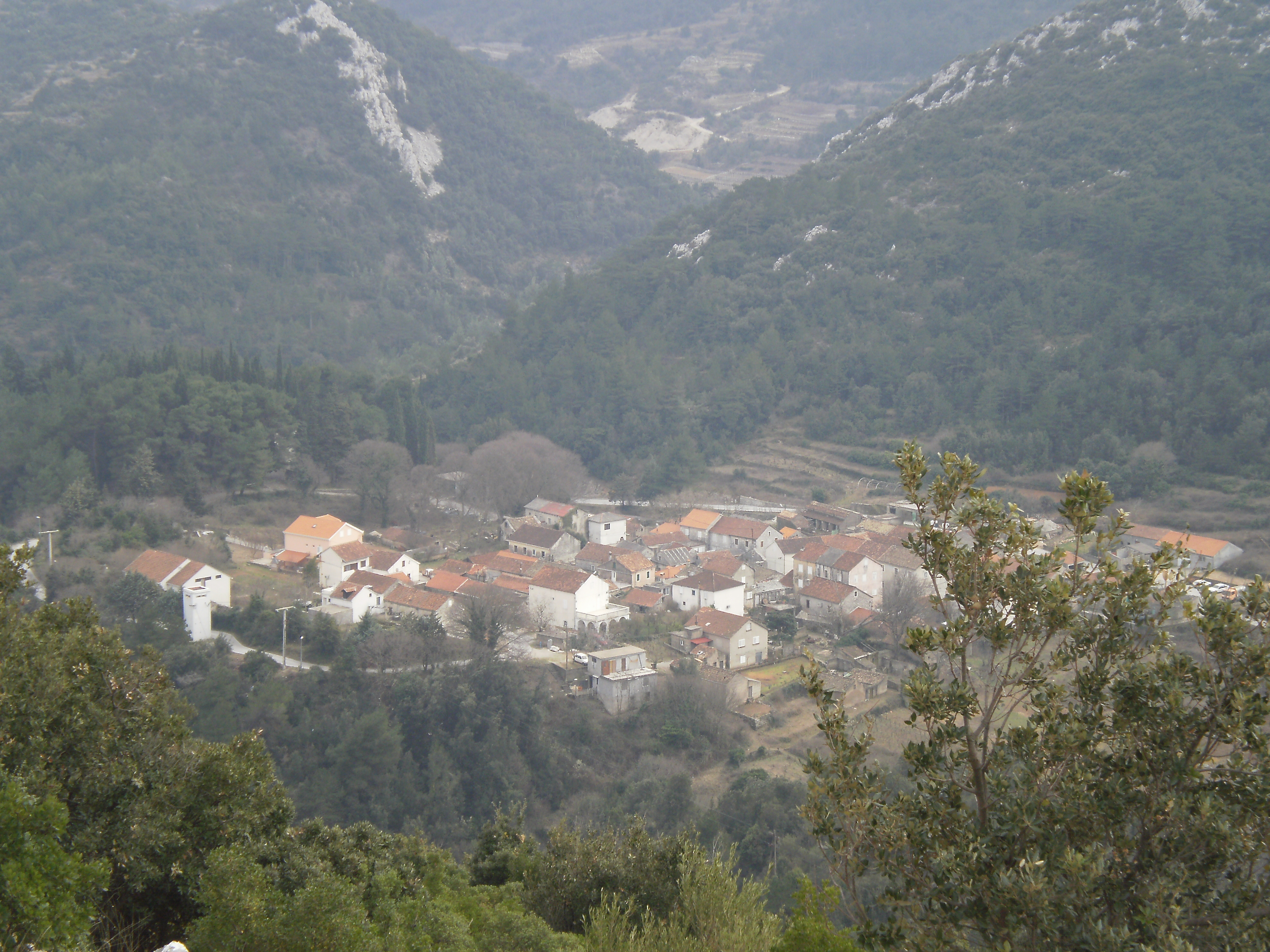 Panorama photos of Gornja Vrućica - Google Maps - Google Earth